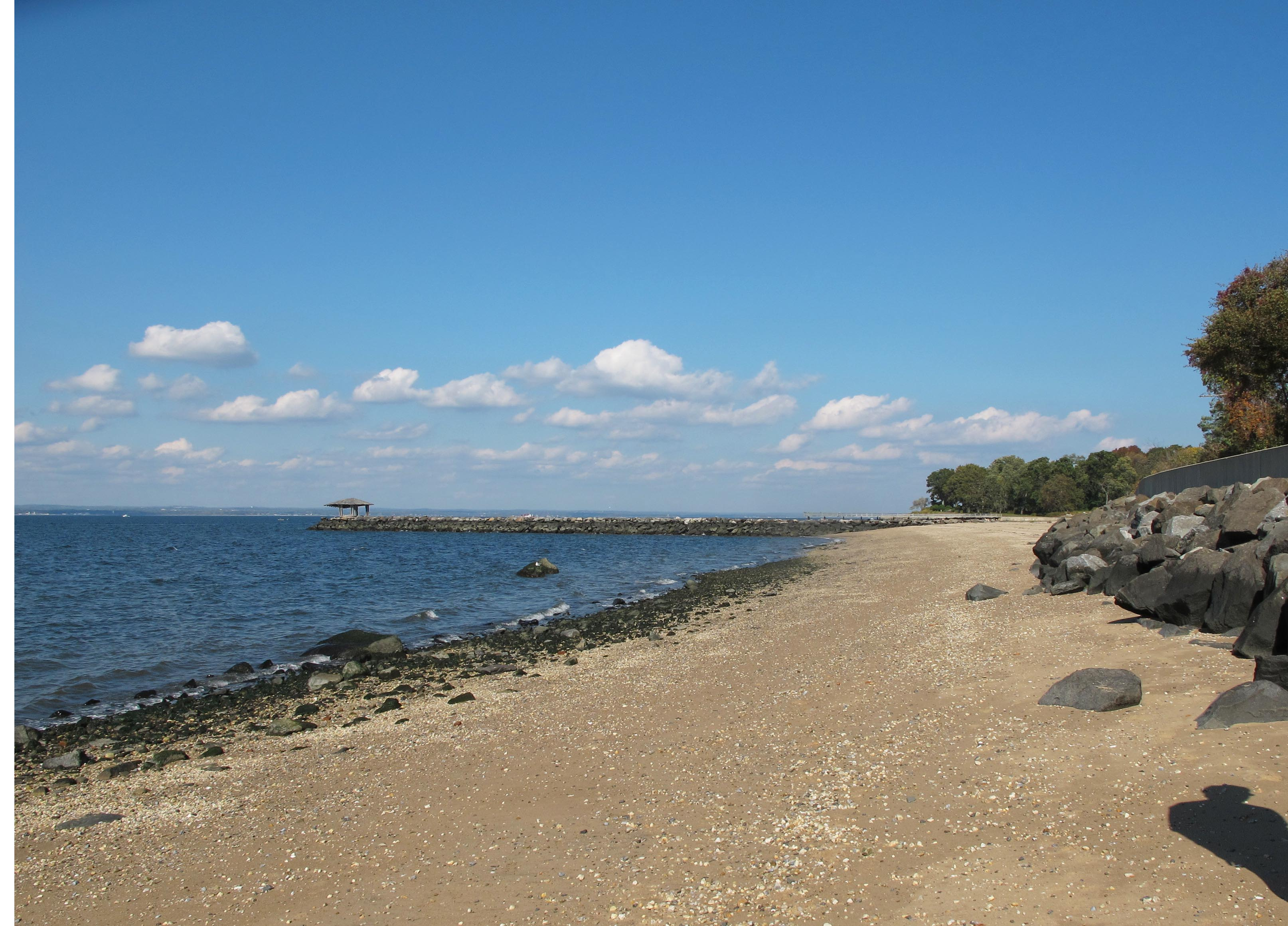 View at low tide looking north along the coast and across Long Island Sound, at Welwyn Preserve, Glen Cove, Long Island, New York, USA, October 2014